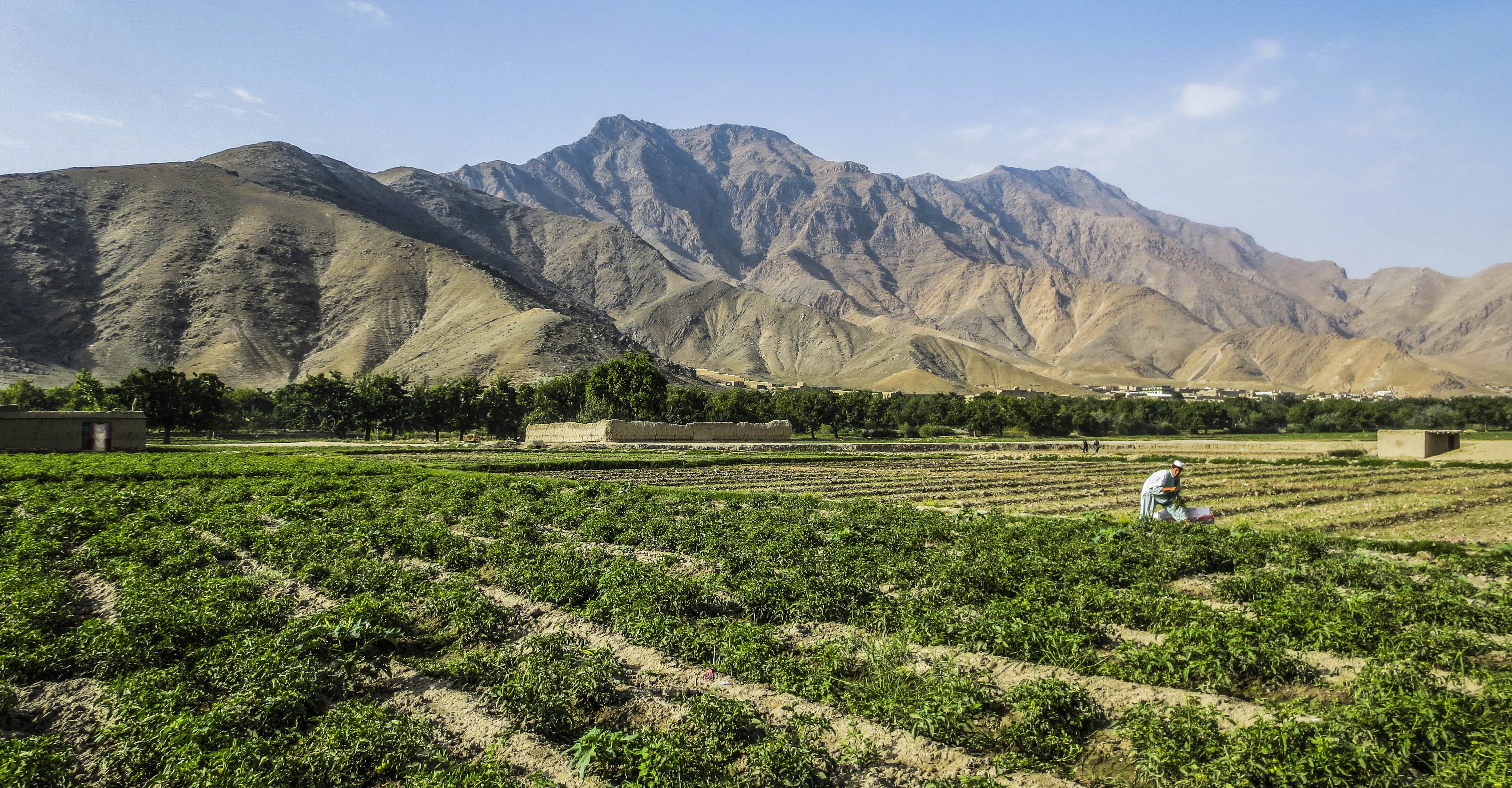 Afghanistan countryside, this photo is not taken by me.